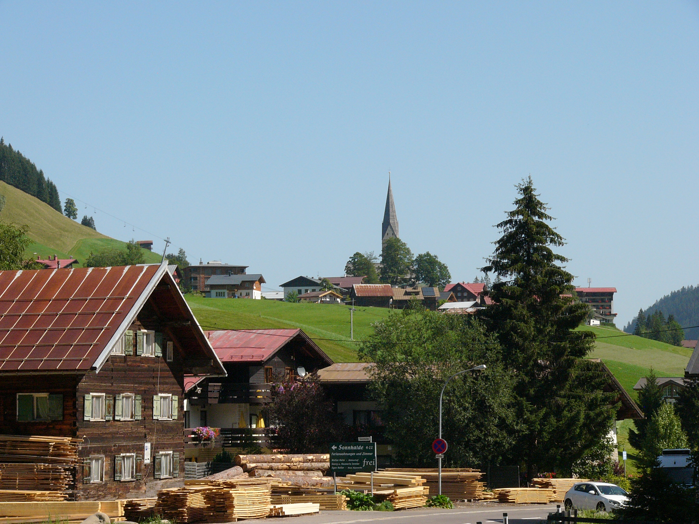 View to the church St. Jodok of Mittelberg in the Kleinwalsertal, a high valley in western Austria.